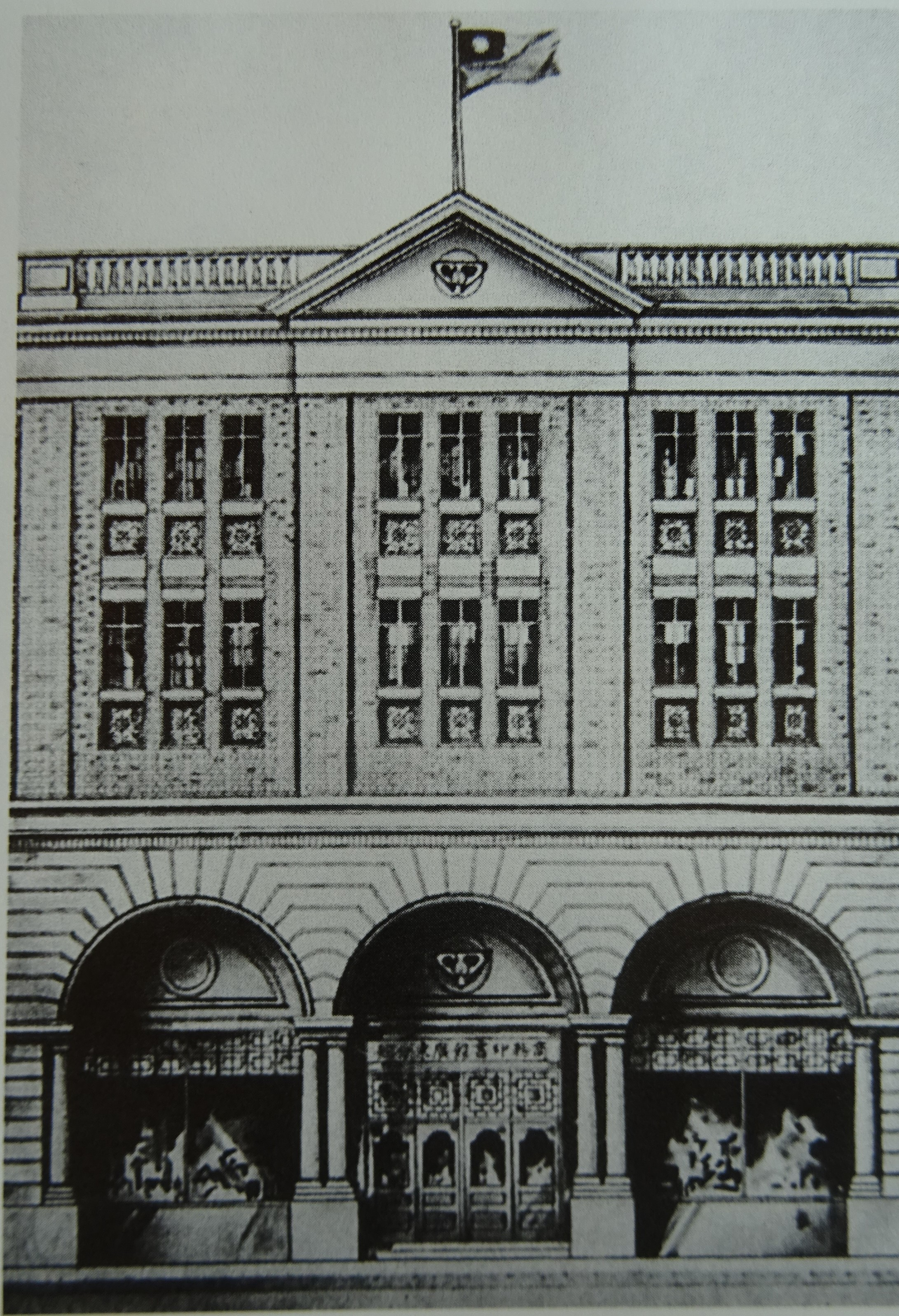 The Canton Branch of the Commercial Press at Wing Hon Road North, Canton, Kwangtung, built in the early years of Republic of China 粵語: 民國初年喺永漢北路籌建嘅商務印書館廣州分館